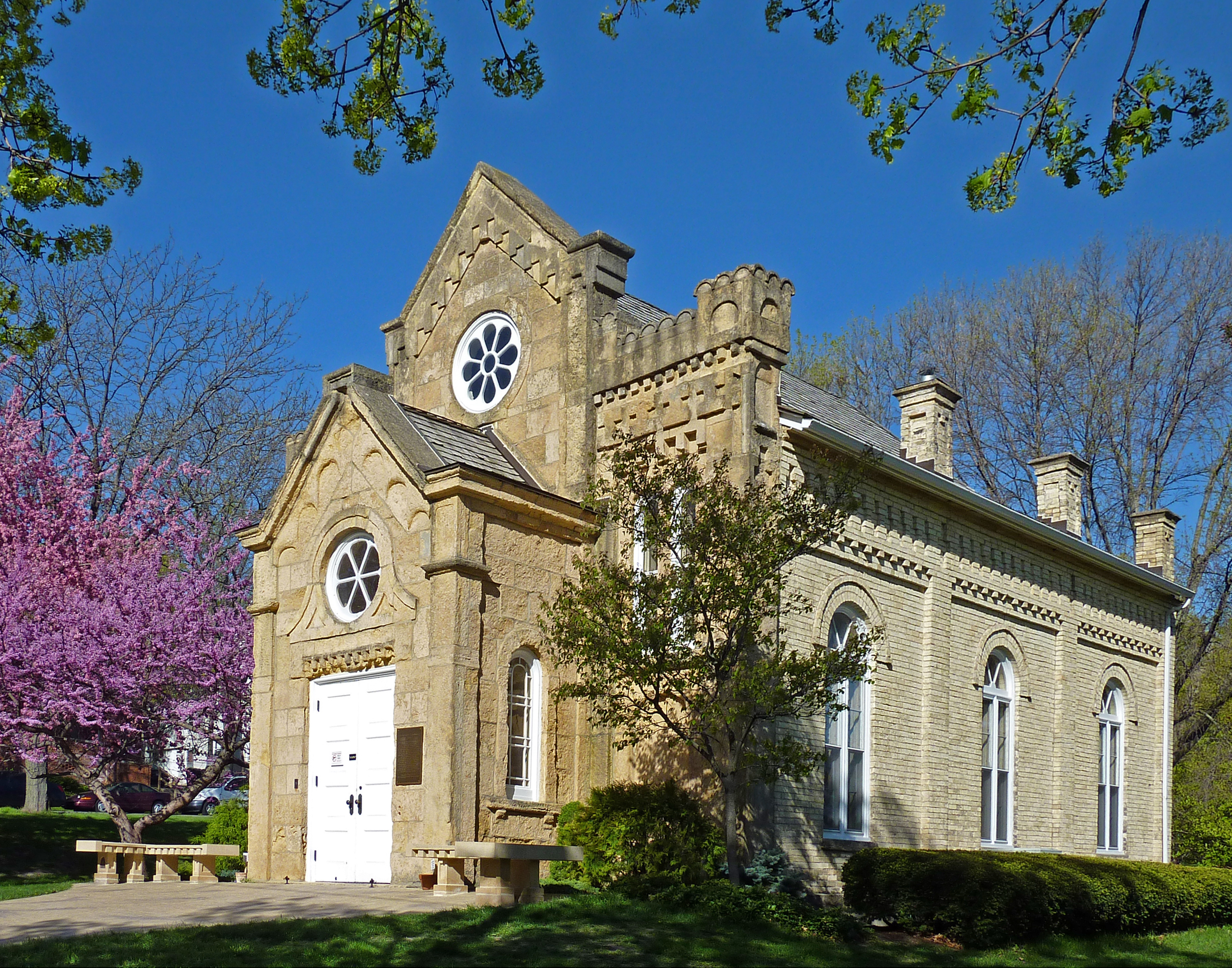 The Gates of Heaven Synagogue (1863), the eighth-oldest synagogue building in the United States, was designed for Madison's Jewish congregation by local architect August Kutzbock in Rundbogenstil, a nineteenth-century German form of Romanesque revival. Kutzbock, a recent German immigrant, also used this distinctive style for the Pierce and Van Slyke Houses in the adjacent Mansion Hill district. The synagogue was later repurposed to serve as the Unitarian Society Meeting House, the Women's Christian Temperance Union, other churches, and a funeral home. In 1971 it was saved from demolition through the efforts of local citizens and moved from its original location at 214 W. Washington Avenue to James Madison Park. It was added to the National Register of Historic Places in 1970. The stone benches in front of the building were added by the Madison Parks Department in 2009.